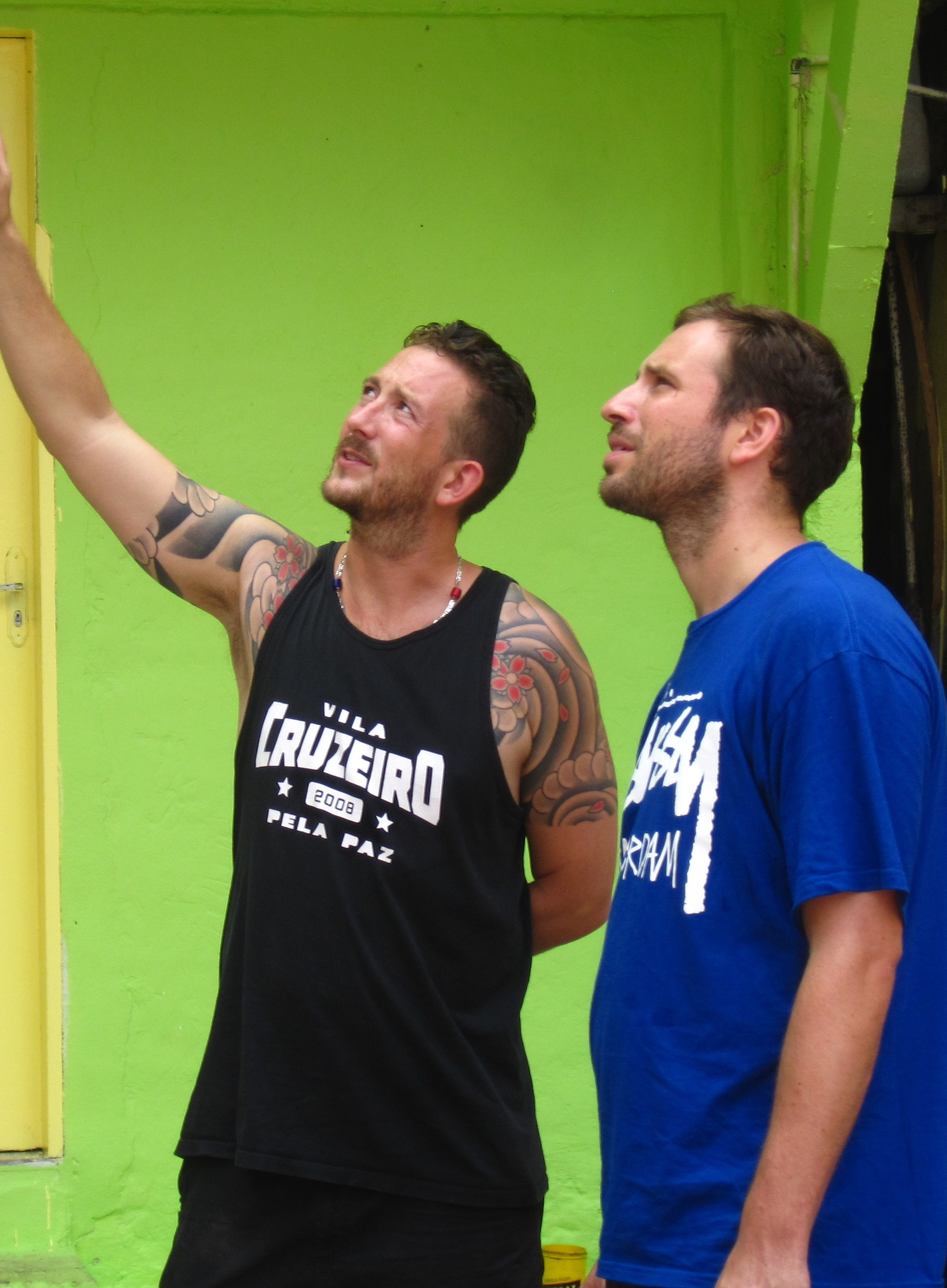 Dutch and German artists Haas and Hahn at the Praça Cantão.